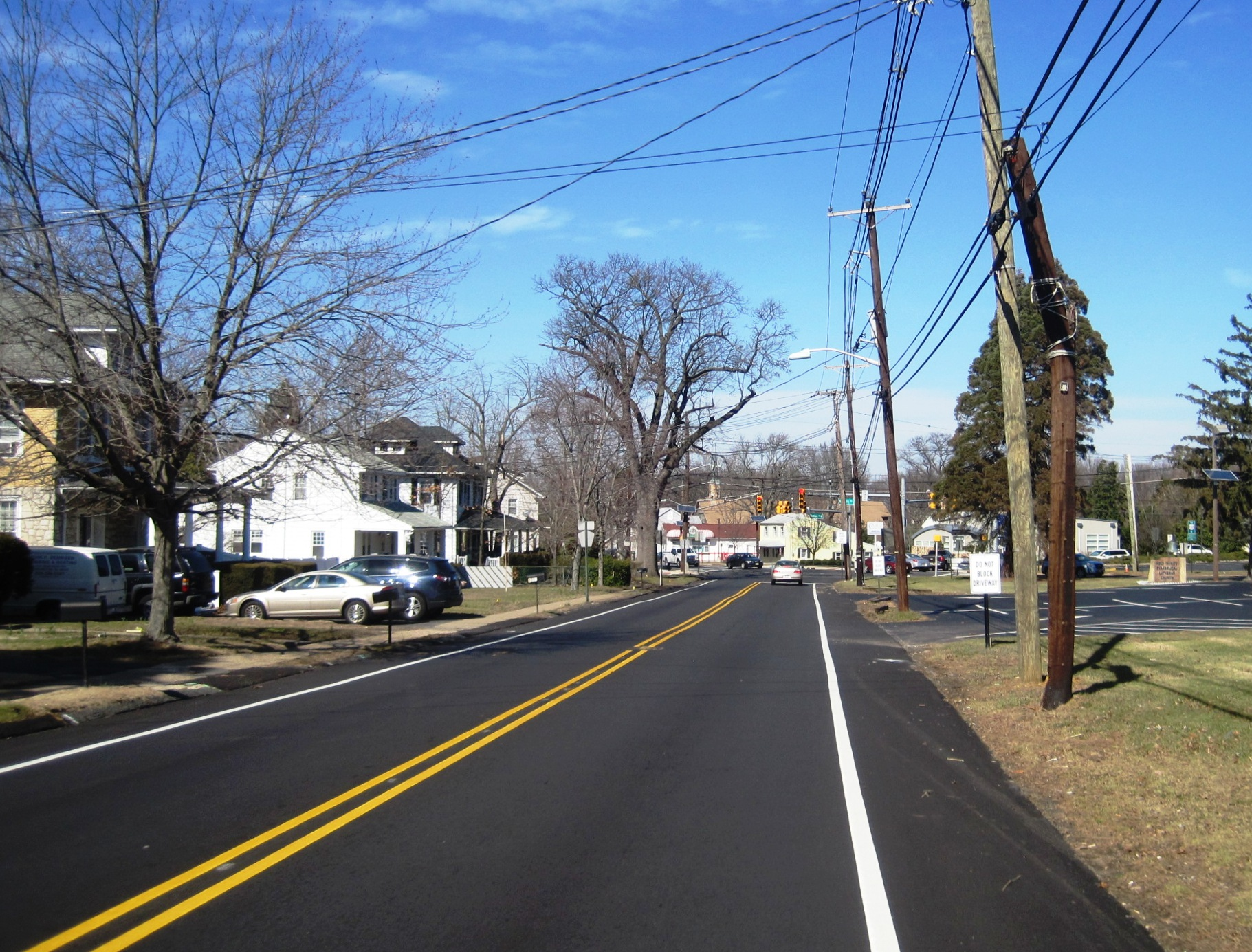 Photo of Springside, New Jersey, an unincorporated community within Burlington Township. Photo taken on northbound Rancocas Road (County Route 635) approaching High Street / Mount Holly Road (CR 541) and Fountain Avenue.